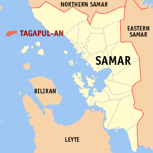 Map of Samar showing the location of Tagapul-an